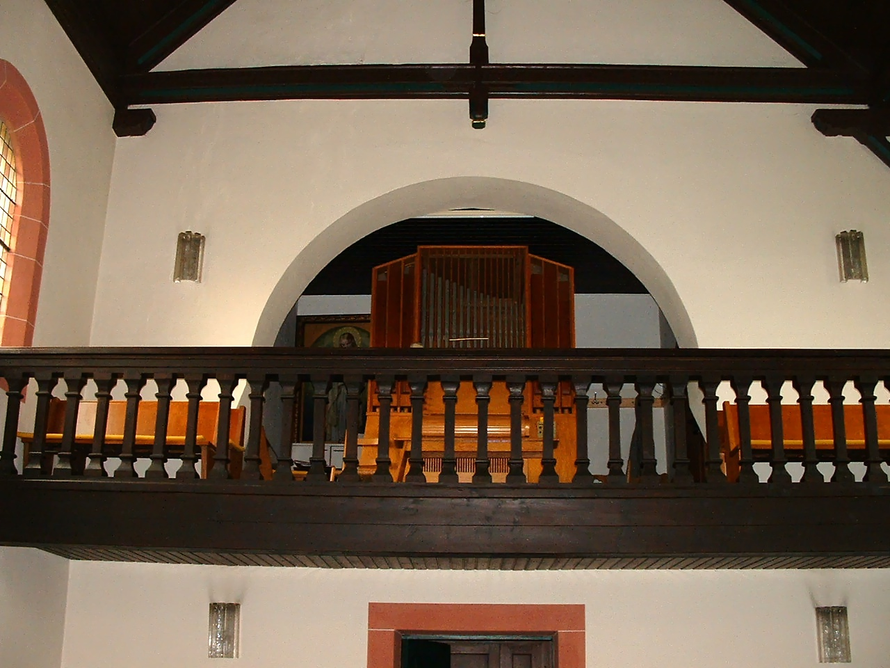 Gallery with organ of the Lutheran church, Prüm, Rhineland-Palatinate, Germany